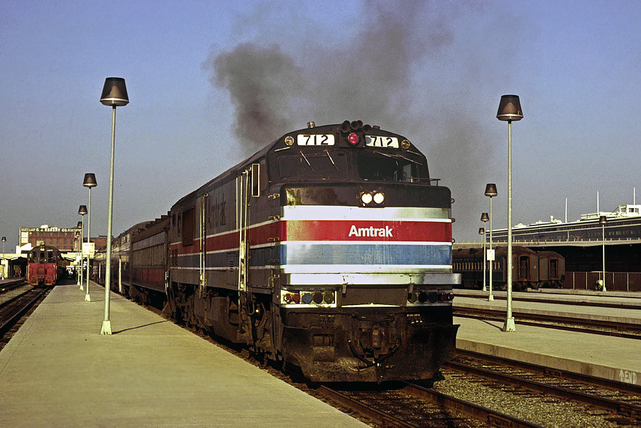 712 SF oct78x. In the late 1970s the Southern Pacific leased several GE P30CHs from Amtrak to operate the Peninsula Commute.